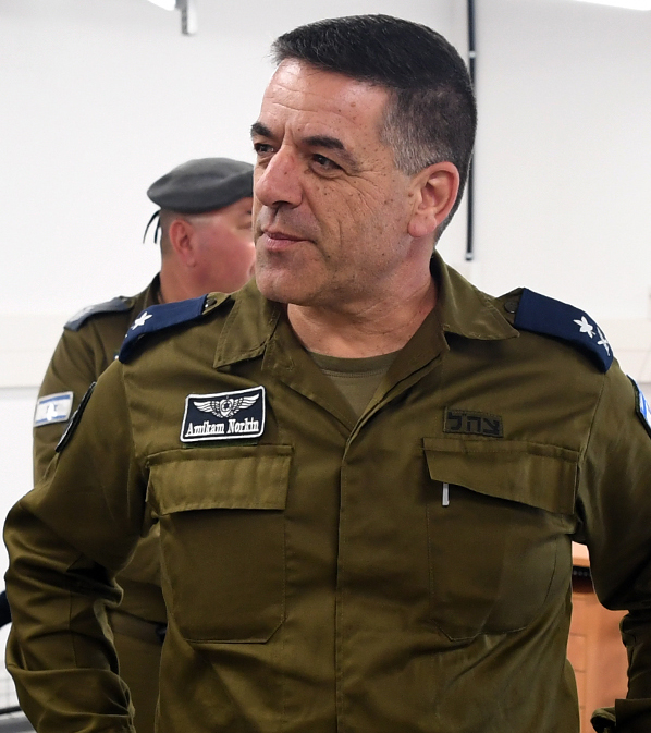 Commander of the Israeli Air Force Major General Amikam Norkin during a tour of the headquarters of Exercise Juniper Cobra 18 at Hatzor Air Force Base, March 9, 2018.